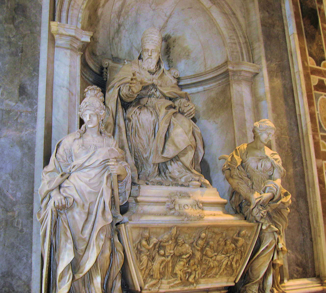 Alessandro Algardi - Monument to Pope Leo XI (1634-1644). San Pietro in Vaticano, Roma.